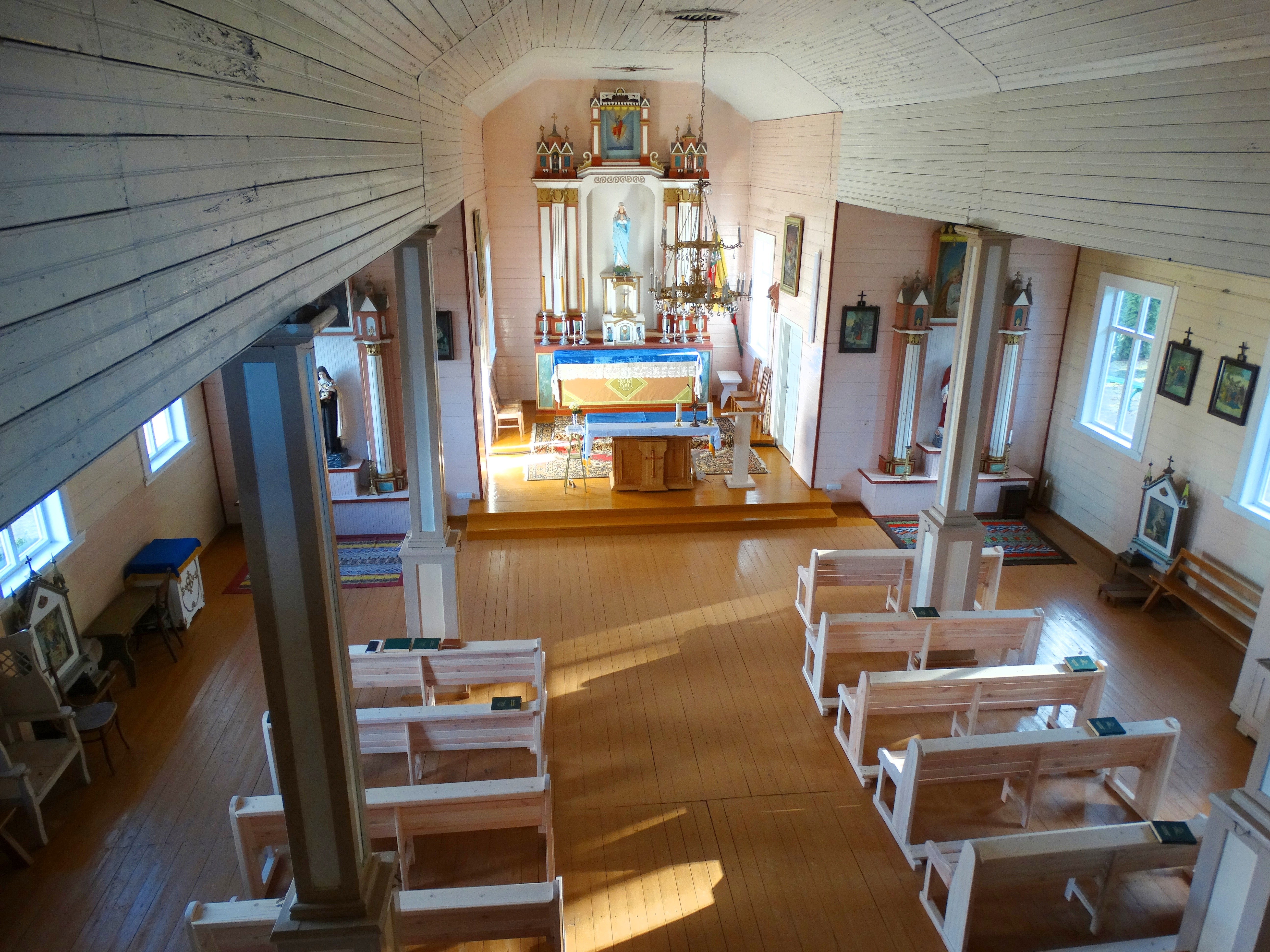 Church in Braziūkai , Kaunas District. Lithuania